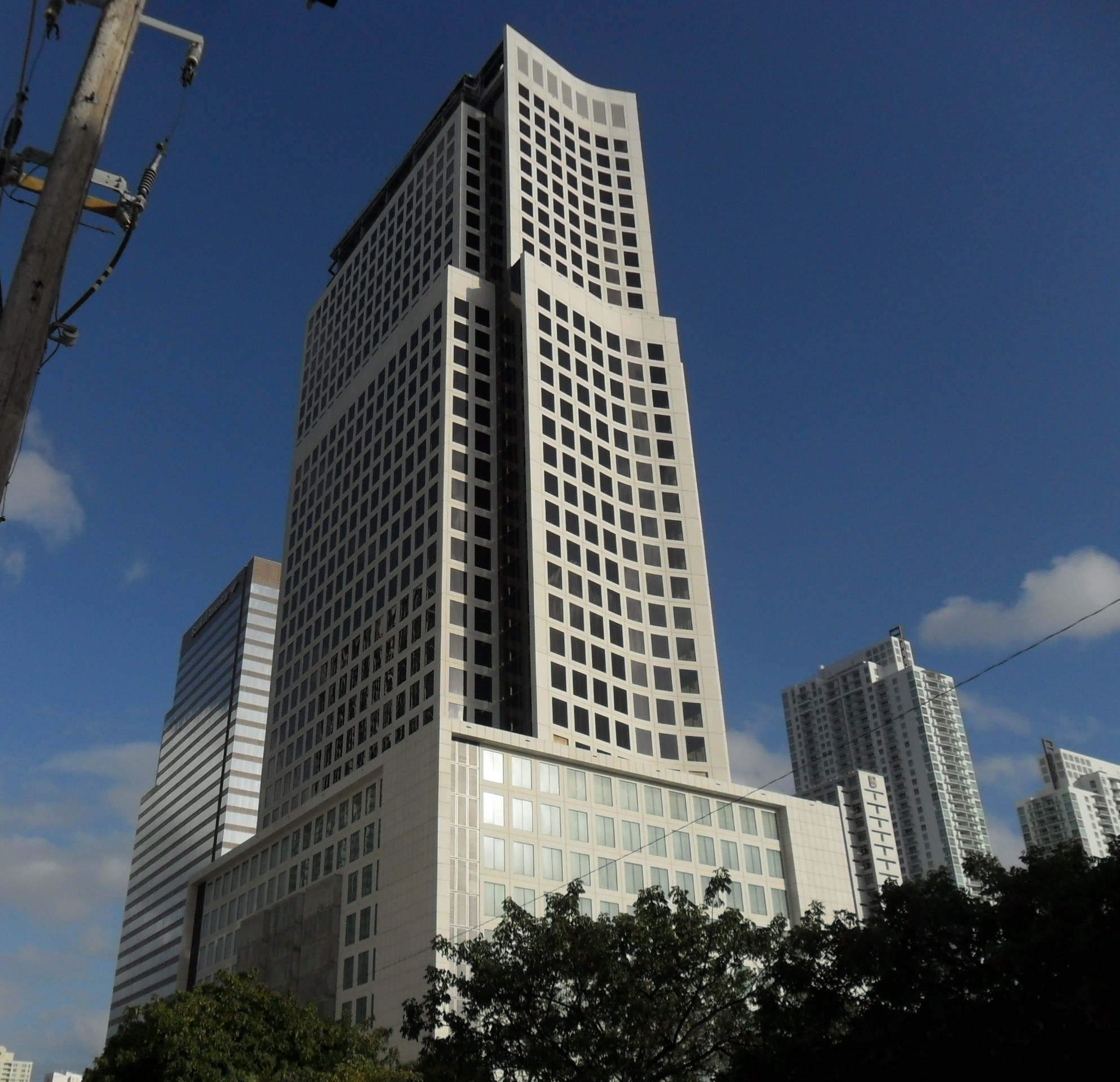 Under construction, topped out Brickell Financial Centre I from the northwest.